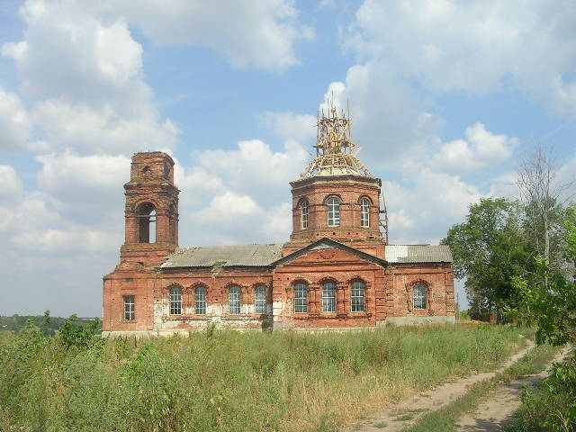 Church in Dolgusha, Dolgorukovsky district, Lipetsk region of Russia. Built in 1878 (belltower belongs to an earlier church built in 1794).